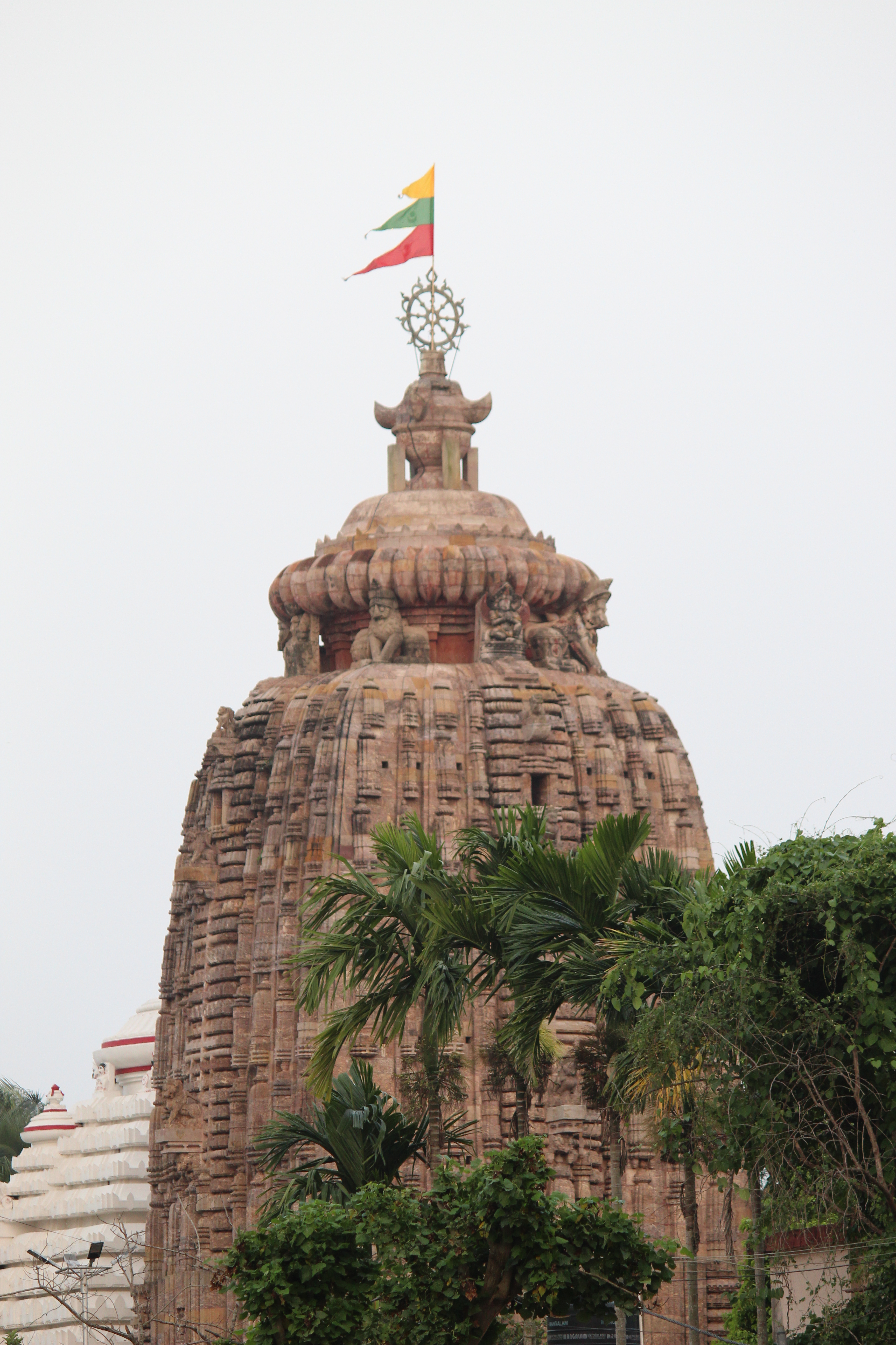 Gopalaji Temple is an old temple situated in Puri,odisha.